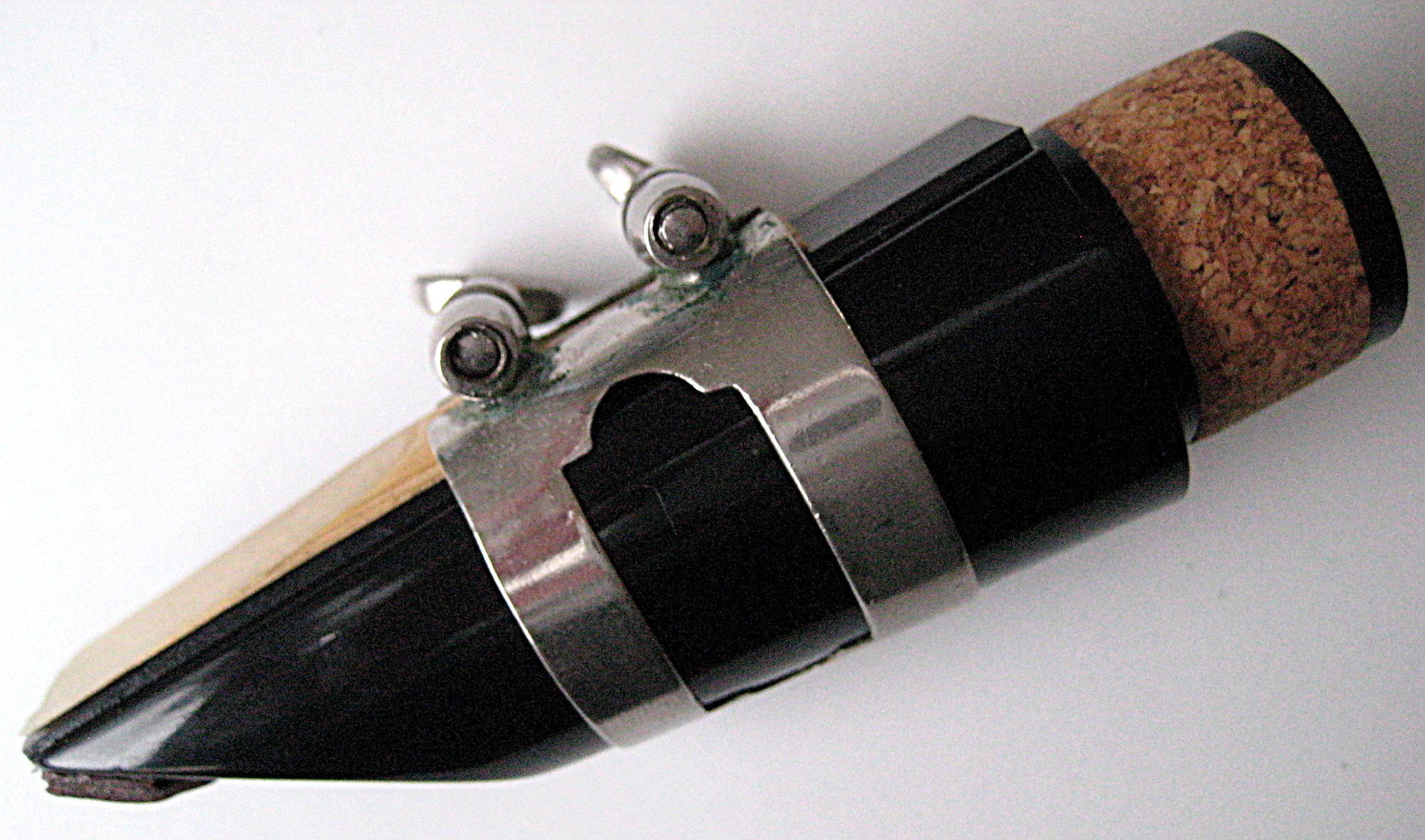 Mouthpiece of a clarinet